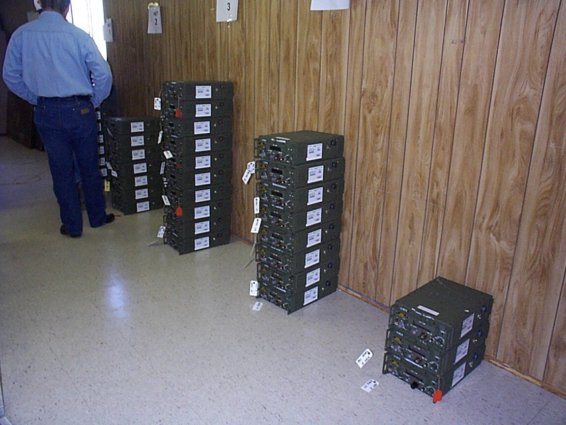 Near-Term Digital Radio, a prototype mobile ad hoc network (MANET) radio system. This photograph is unclassified, and I took it.